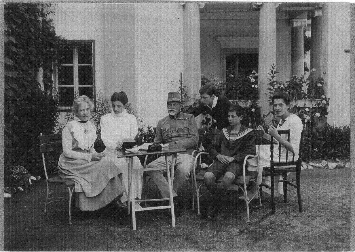 General lieutenant Adam von Brandner with his family 1917 in Olmütz